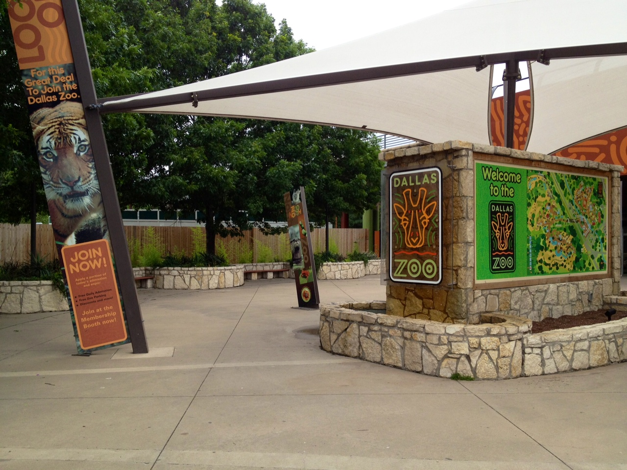 DallasZooEntryPlaza2